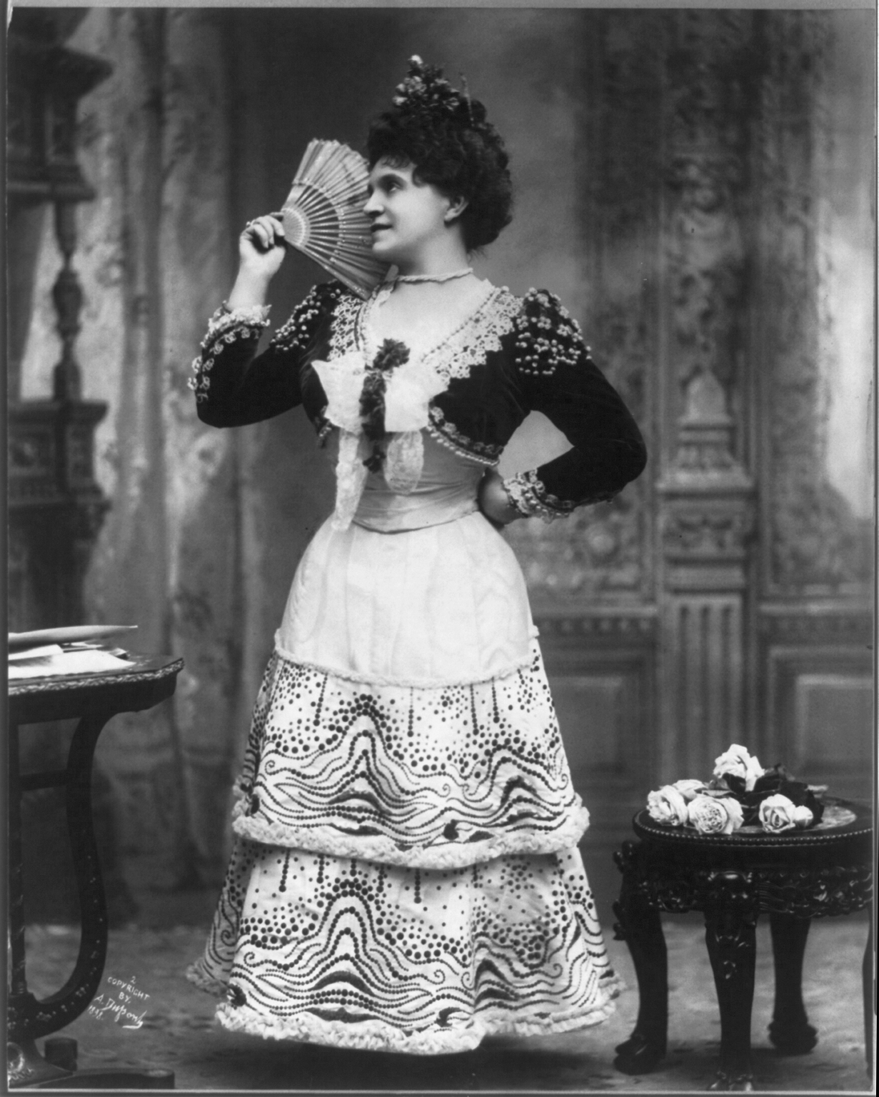 Marcella Sembrich as Rosina (1858-1935); full length, standing, facing left, holding fan